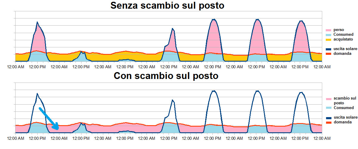 Settimanale net metering